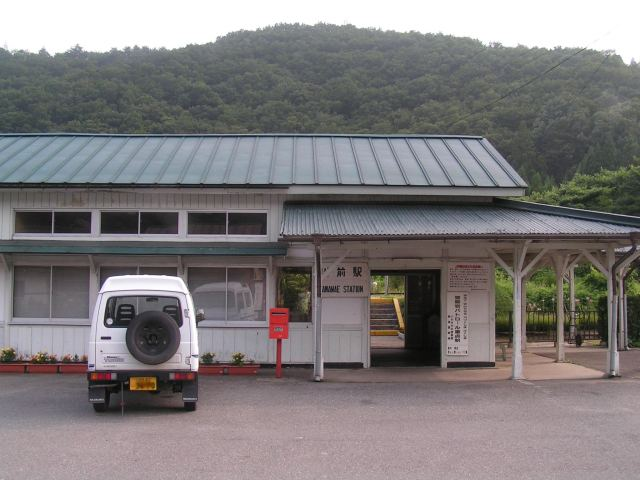 Kawamae Station, Iwaki, Fukushima, Japan